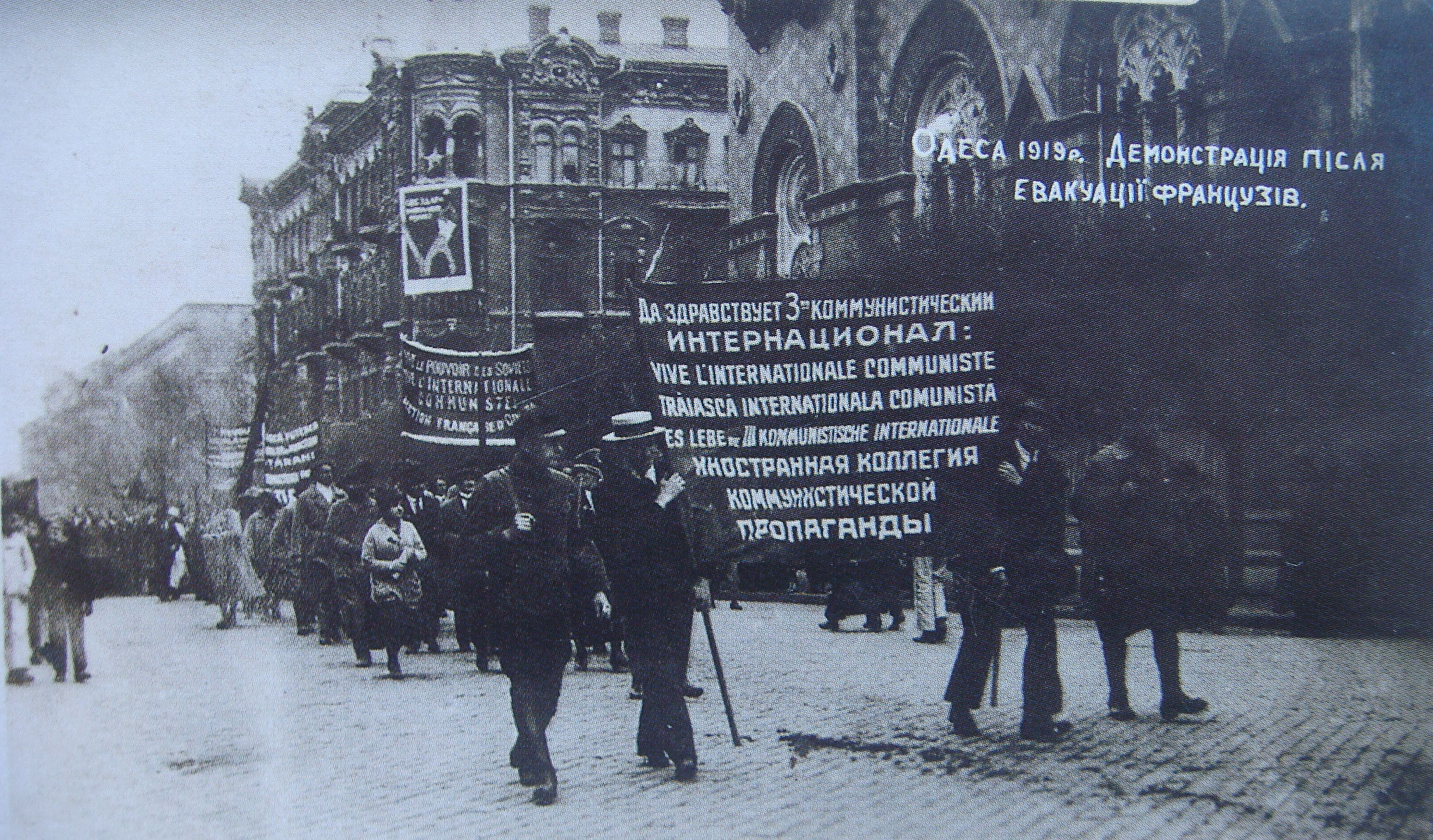 Bolshevists demonstration in Odessa after city was left by White Army and Allied troops